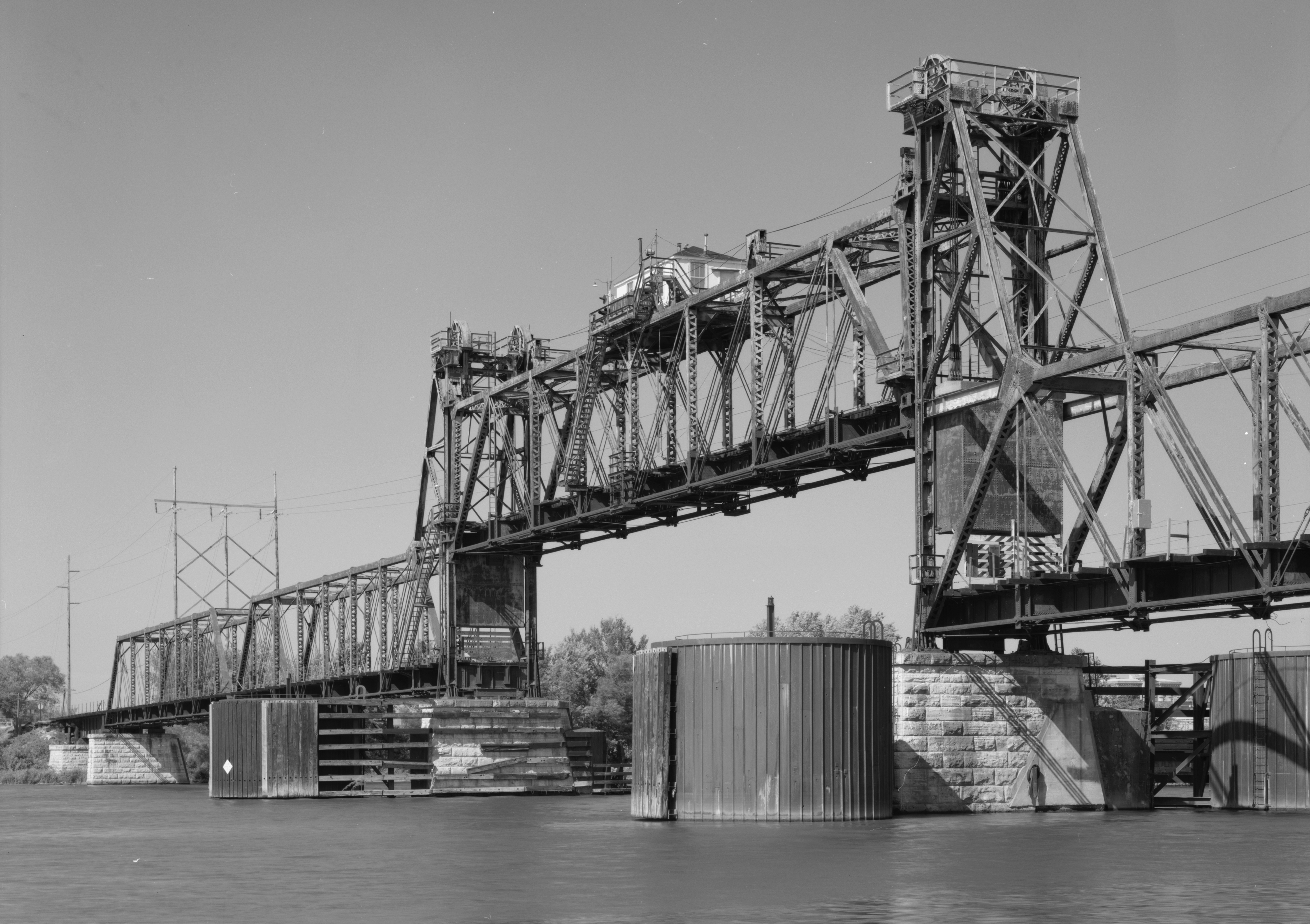 View of west side of span from south bank of the Illinois River